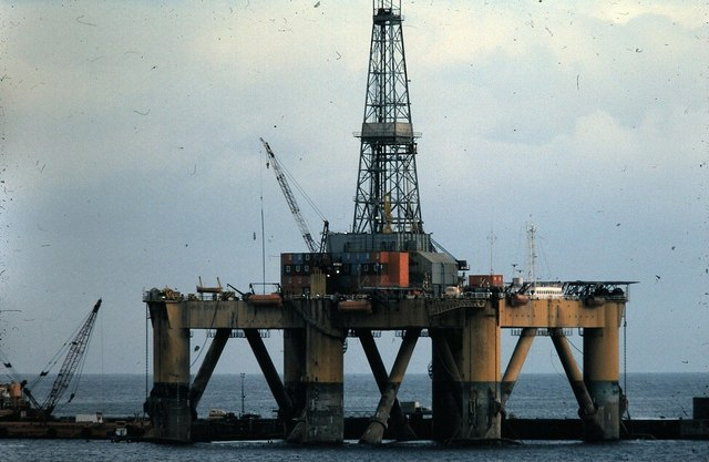 Drilling rig in Peterhead Harbour The semi-submersible drilling rig 'Chris Chenery' undergoing maintenance in 1978.